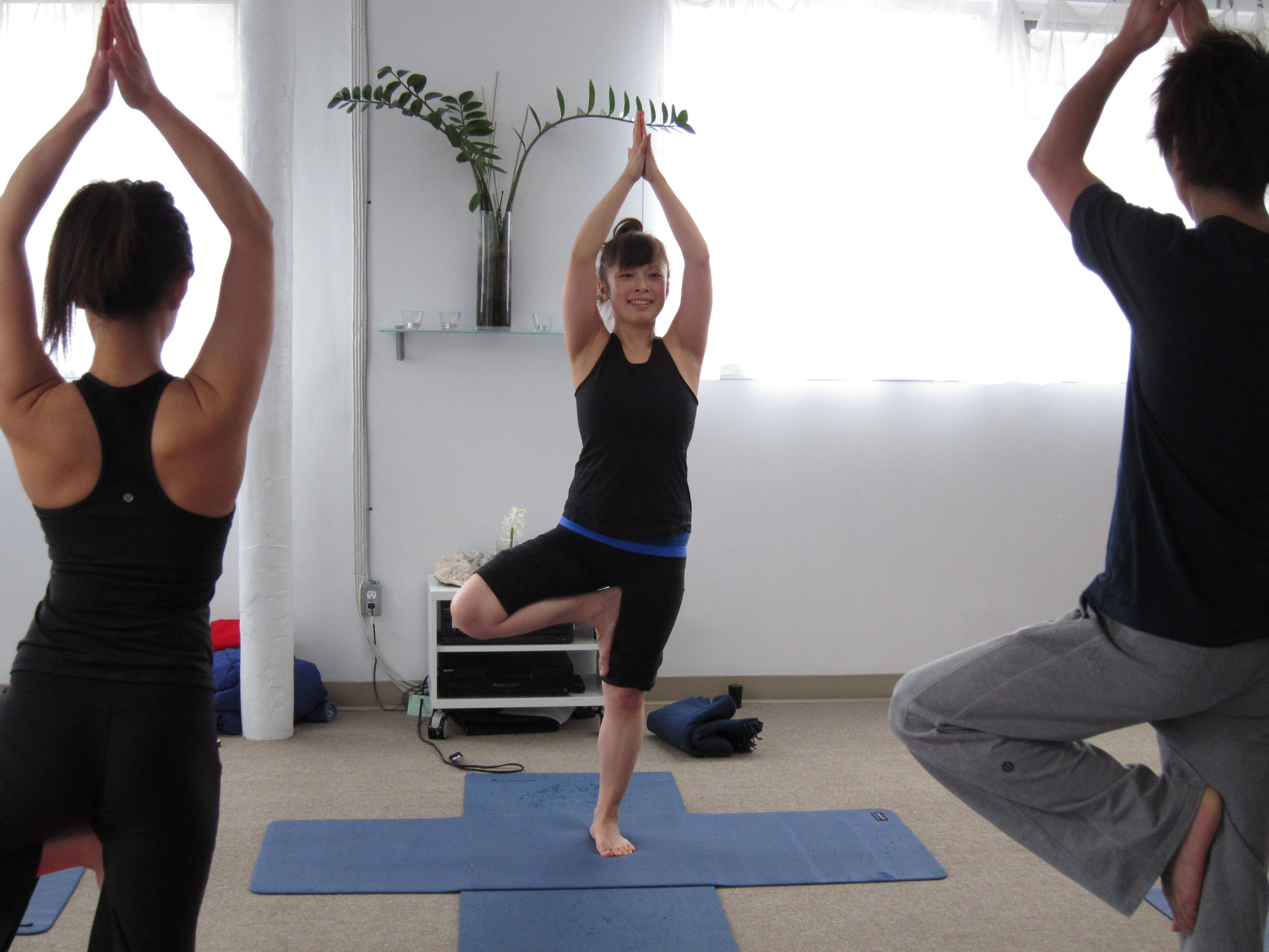 Semperviva yoga studio,Sky center 2582 West Broadway, Vancouver